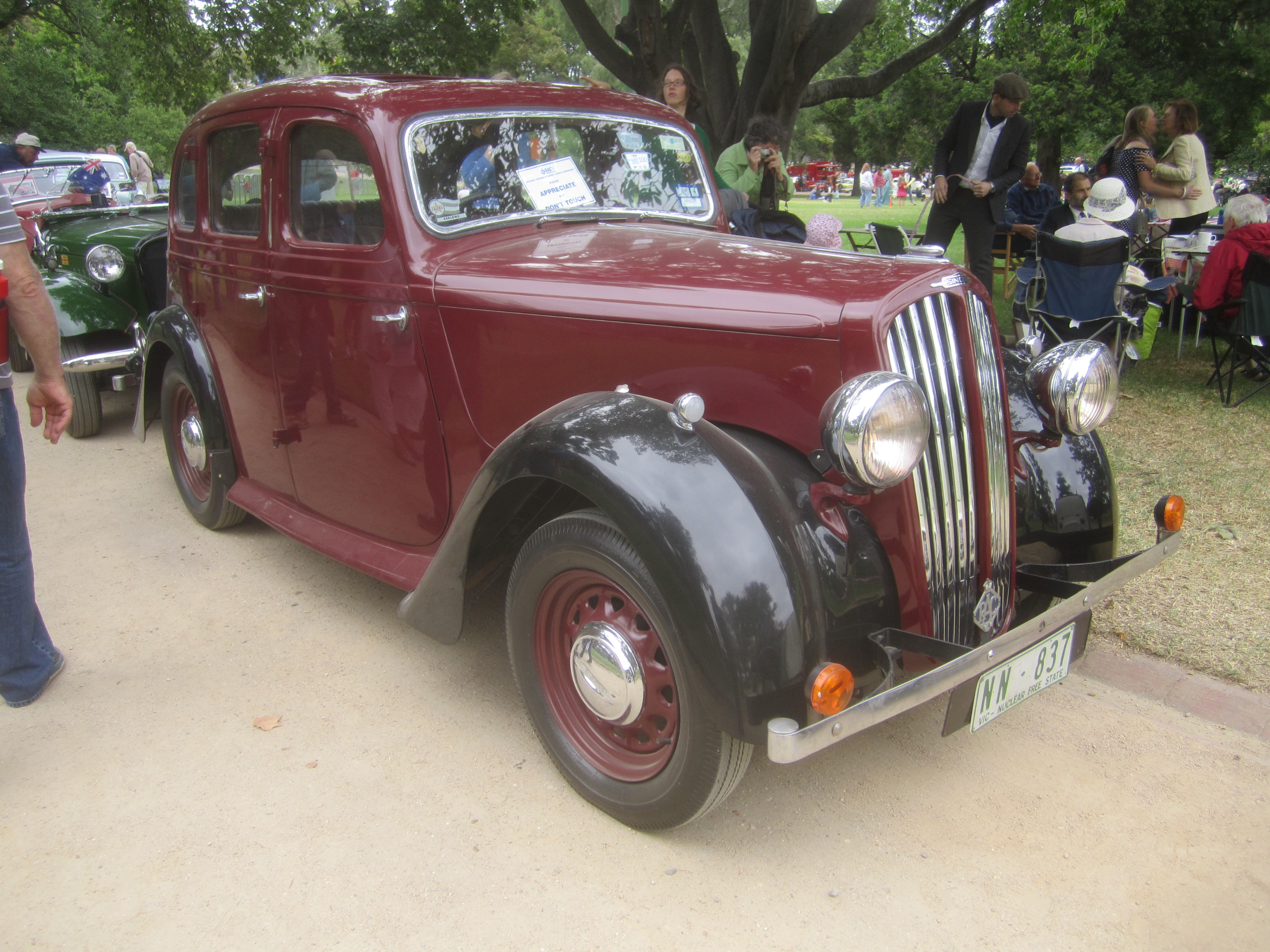 It wasn't until 1955 Singer was taken over by the Rootes Group. After the Second World War the pre-war Nine, Ten and Twelve were initially re-introduced with little change. Engine; 1525cc 4 cyl